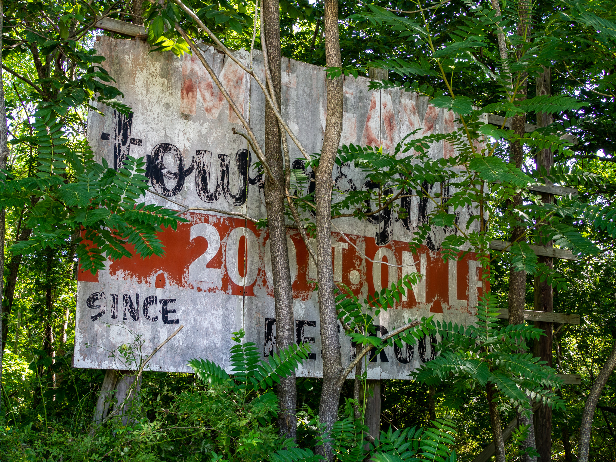 This is a road sign advertising the Mount Gayler, AR tourist stop